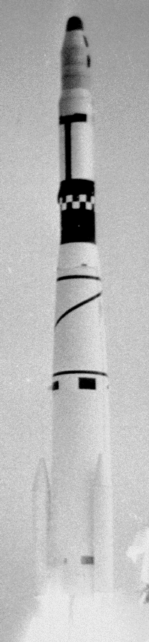 Launch of Thor Agena D with Corona 78 spy-satellite